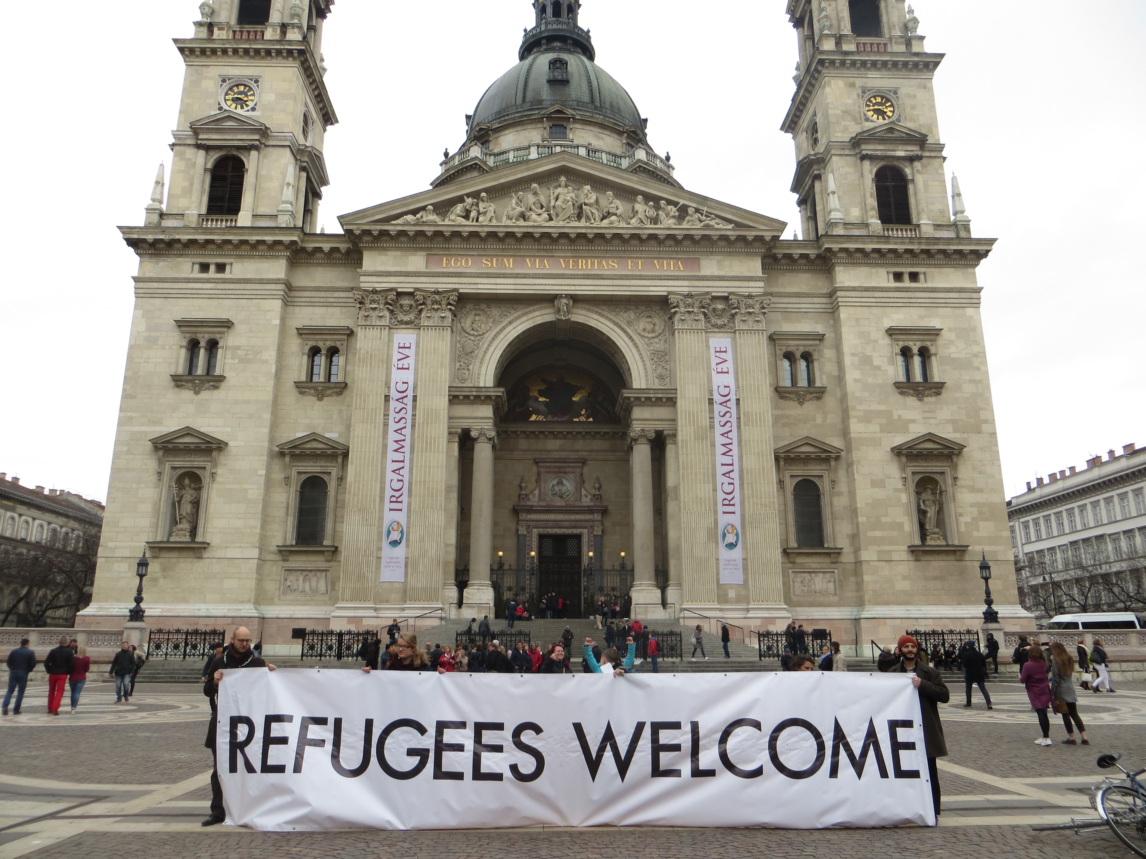 On 12th March 2016, Budapest